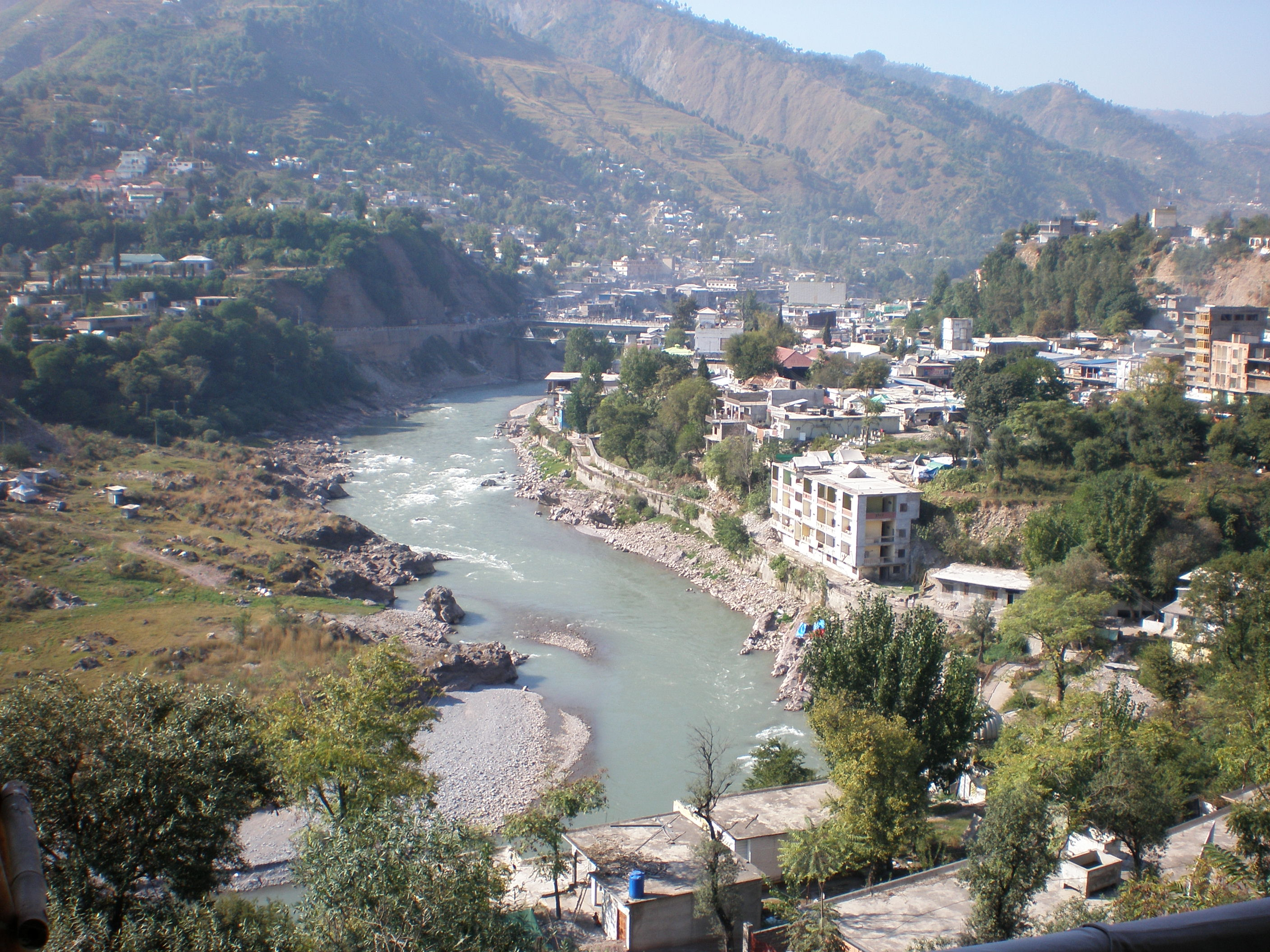 Took this photo when i was visiting Muzaffarabad on vacation.Its a view of Muzaffarabad and Jhelum river from my hotel's balcony.